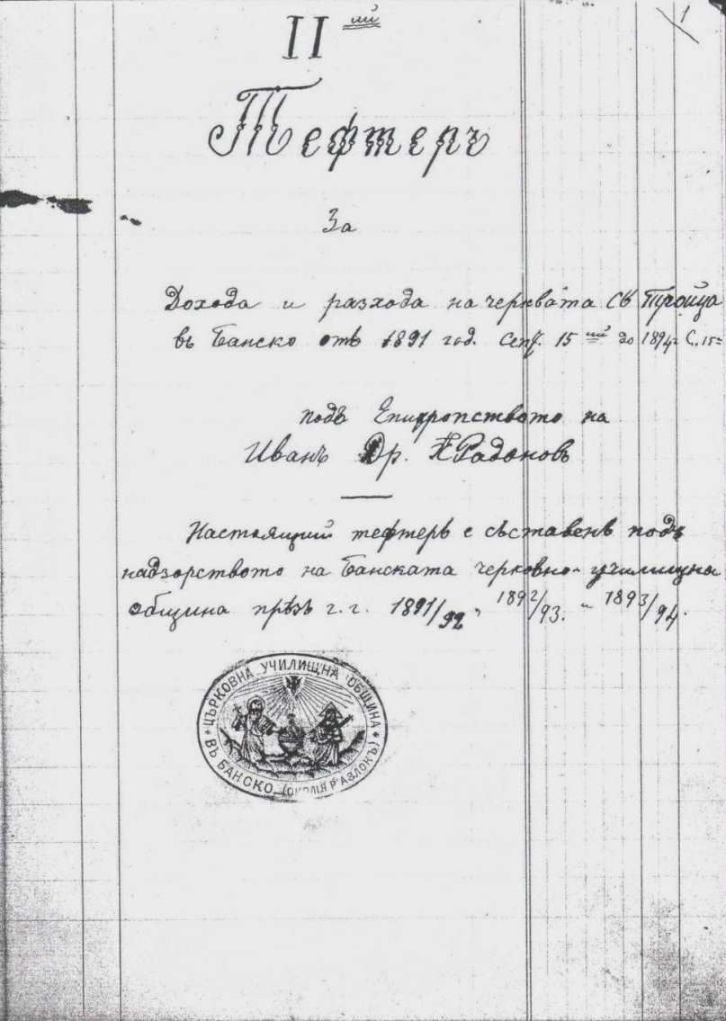 Account Book of Holy Trinity Church Bansko 1891 - 1894